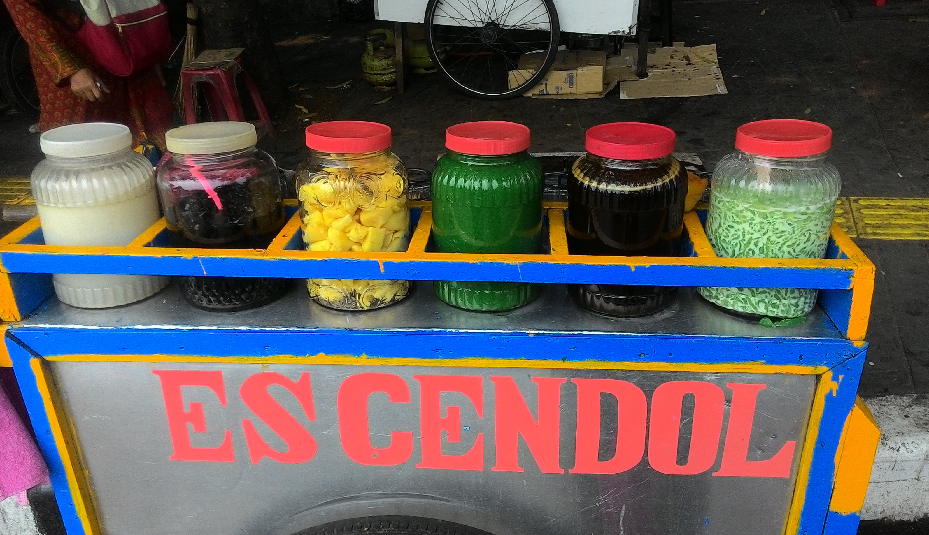 Jakarta street-side Es Cendol seller pushcart displaying cendol ingredients, near Palmerah Station, Central Jakarta, Indonesia. Jar's content from left to right: coconut milk, black grassjelly, tapai fermented sweet cassava, cendol without coconut milk, liquid palm sugar, and green cendol jellies in coconut milk.